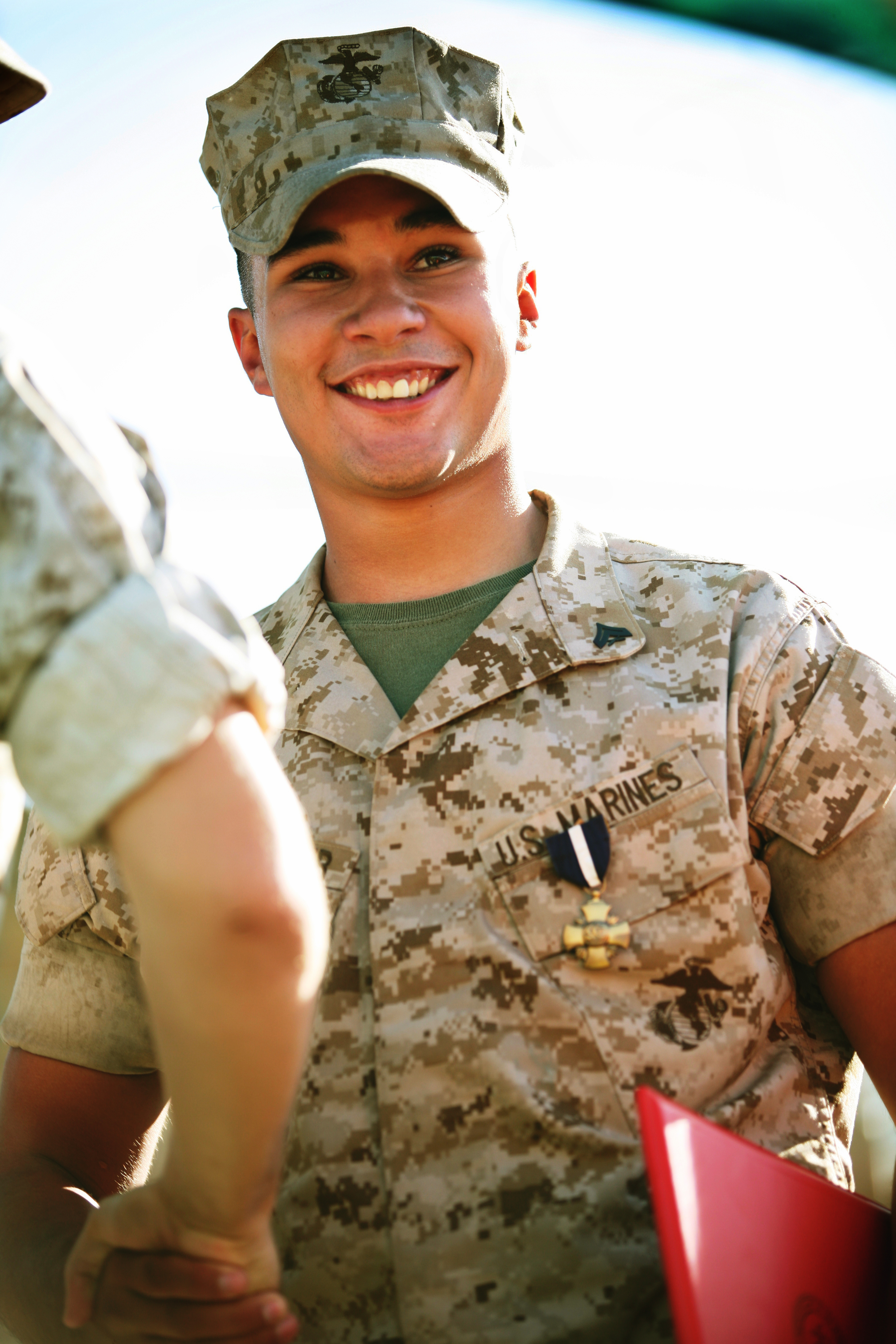 Cpl. Richard S. Weinmaster, a Squad Automatic Weapon gunner with 3rd Platoon, Company E, 2nd Battalion, 7th Marine Regiment, smiles as he is congratulated by a Marine after a ceremony where he was awarded the Navy Cross Medal for valor and received a meritorious promotion to corporal at Lance Cpl. Torrey L. Gray Field Thursday.